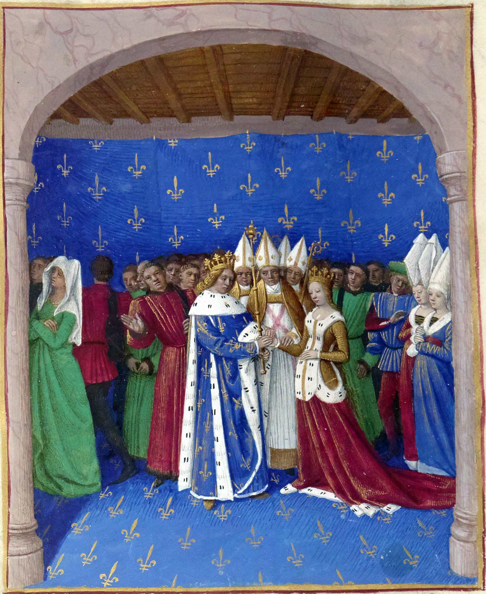 The queen is depicted in a sideless surcoat.